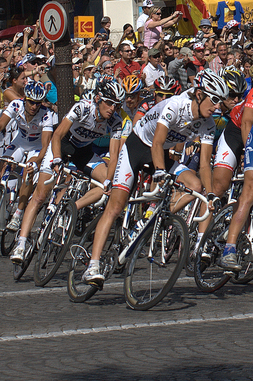 Andy and his brother in Paris